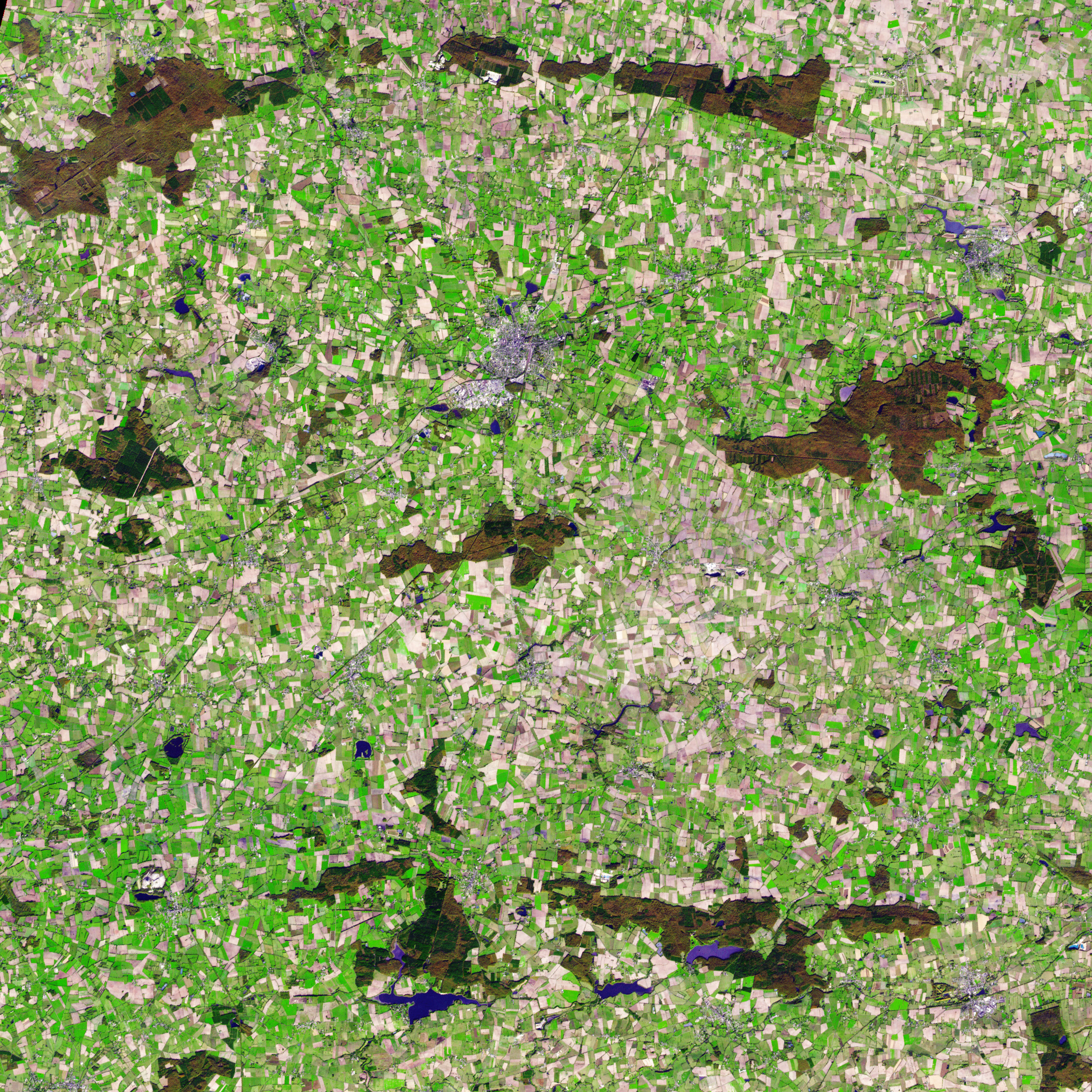 Vestiges of Medieval Brittany mingle with signs of modern civilization in this simulated natural colour satellite image of Châteaubriant, France. The small city is silver, coloured by light bouncing off the reflective surfaces of modern times. The surrounding country is an irregular patchwork of small fields, reflecting land use in the Middle Ages. The image does not show what you would see if you were in an air-plane over the city like a natural colour satellite image would, but rather, it shows the region in a combination of visible and infra-red light. Plant-covered land is still green and water is dark blue, so this particular combination is called simulated natural colour. By late November, crops had been harvested and many of the fields were bare. The exposed soil ranges from pale tan to brown in the image. Other fields (possibly pastures) remained green, even late in the year. Patches of forest on the right and lower edges of the image are brown and dark green.